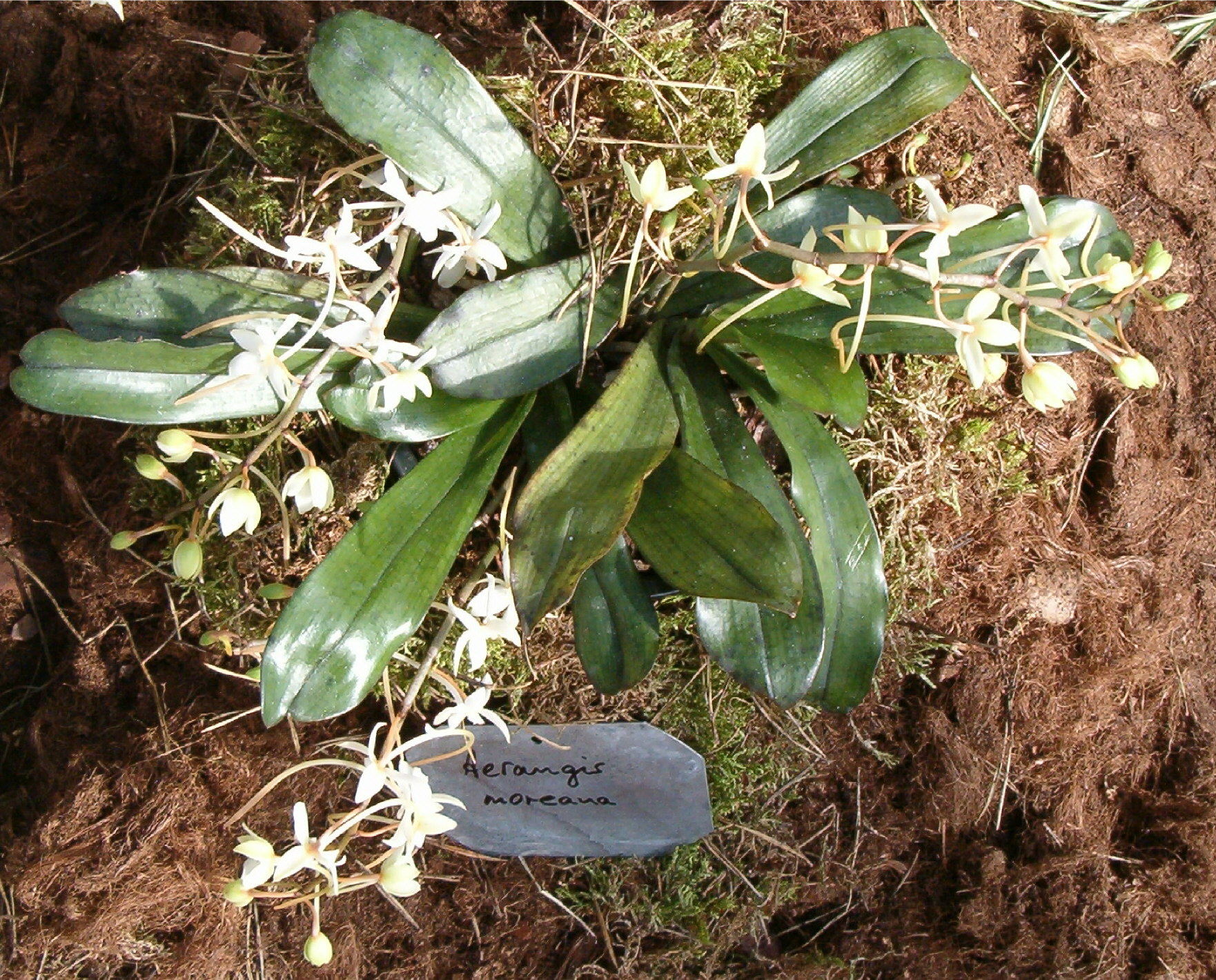 Aerangis mooreana, Habitus and Flowers Location: Botanical Gardens Berlin - Orchid Exhibition